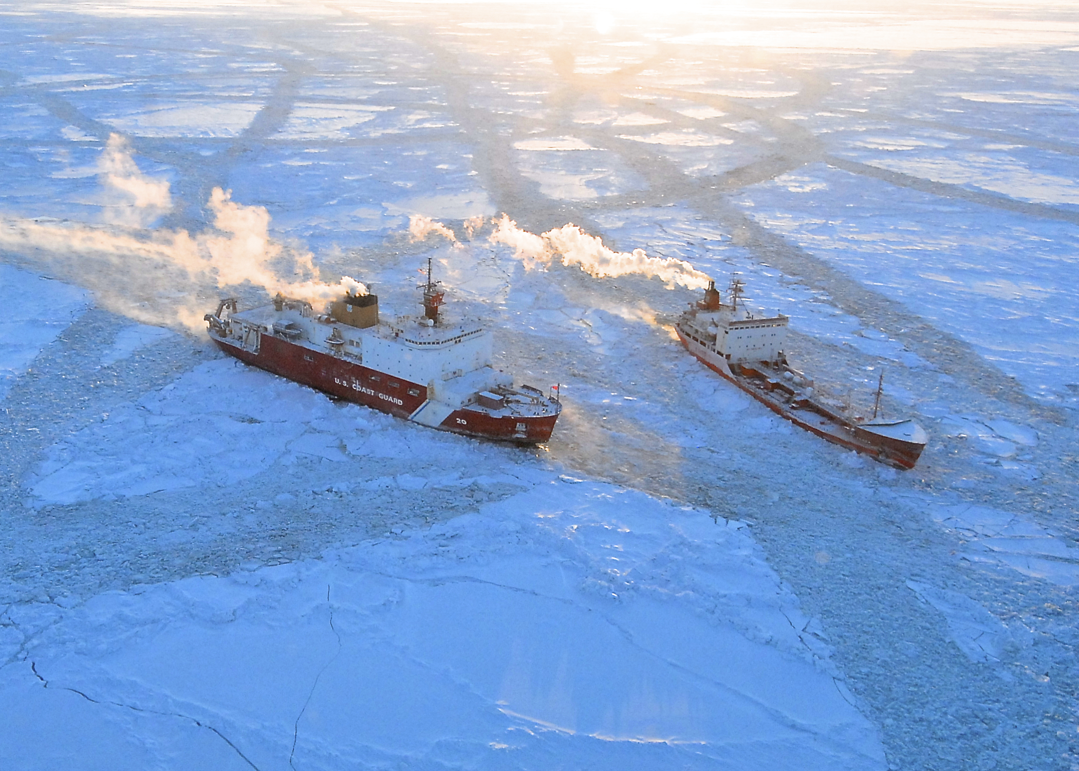 BERING SEA - The Coast Guard Cutter Healy approaches the Russian-flagged tanker Renda while breaking ice around the vessel 97 miles south of Nome, Alaska, Jan. 10, 2012. The two vessels departed Dutch Harbor for Nome on Jan. 3, 2012.